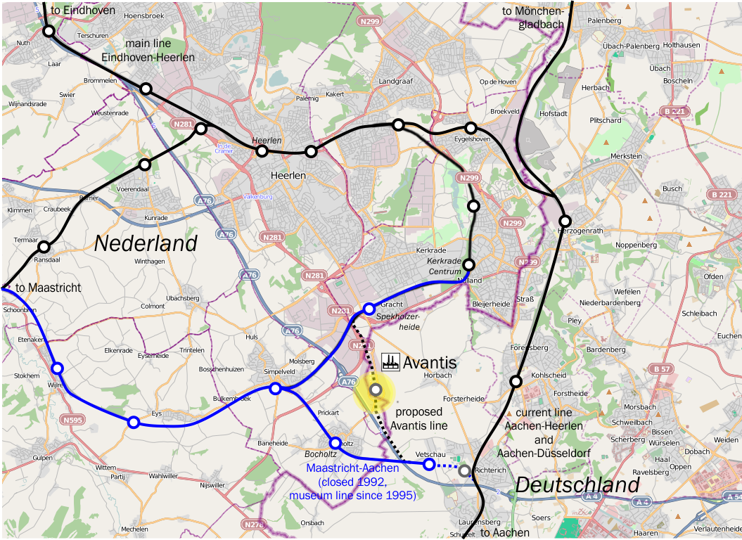 Using File:Spoorlijn schaesberg simpelveld.png as a background, gives an overview of the current railway lines in the Heerlen-Kerkrade area, and the proposed new Avantisline.